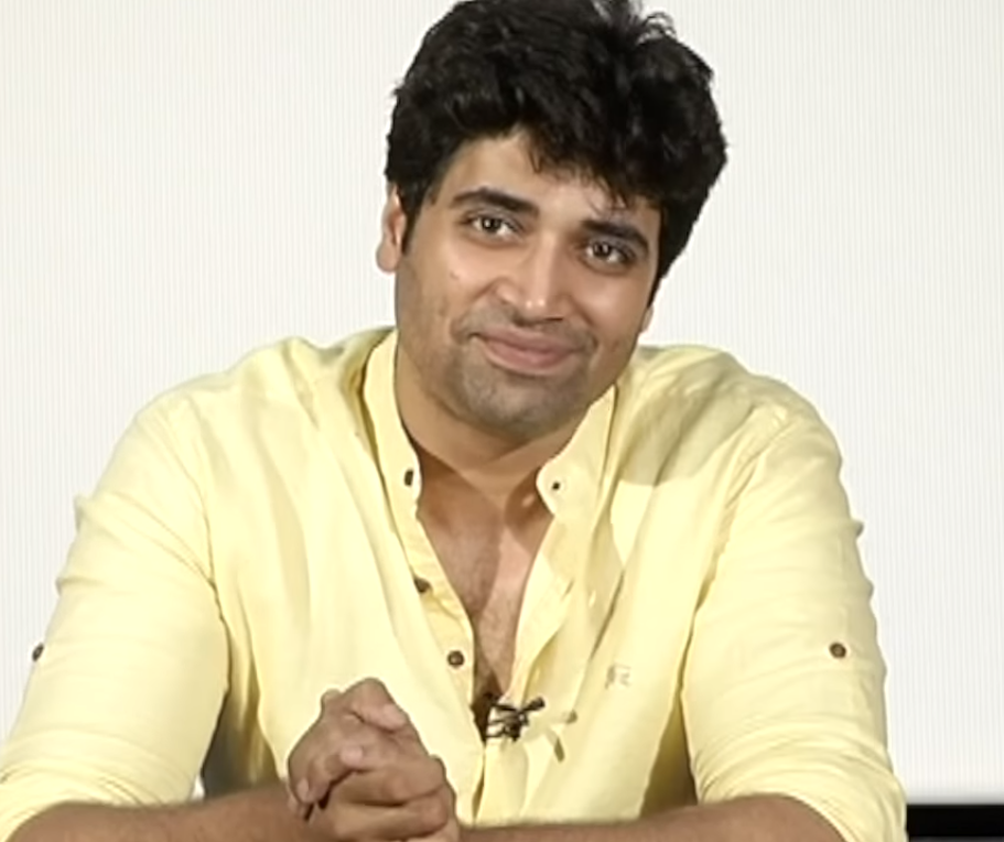 Adivi Sesh at Ami Tumi press meet in 2017